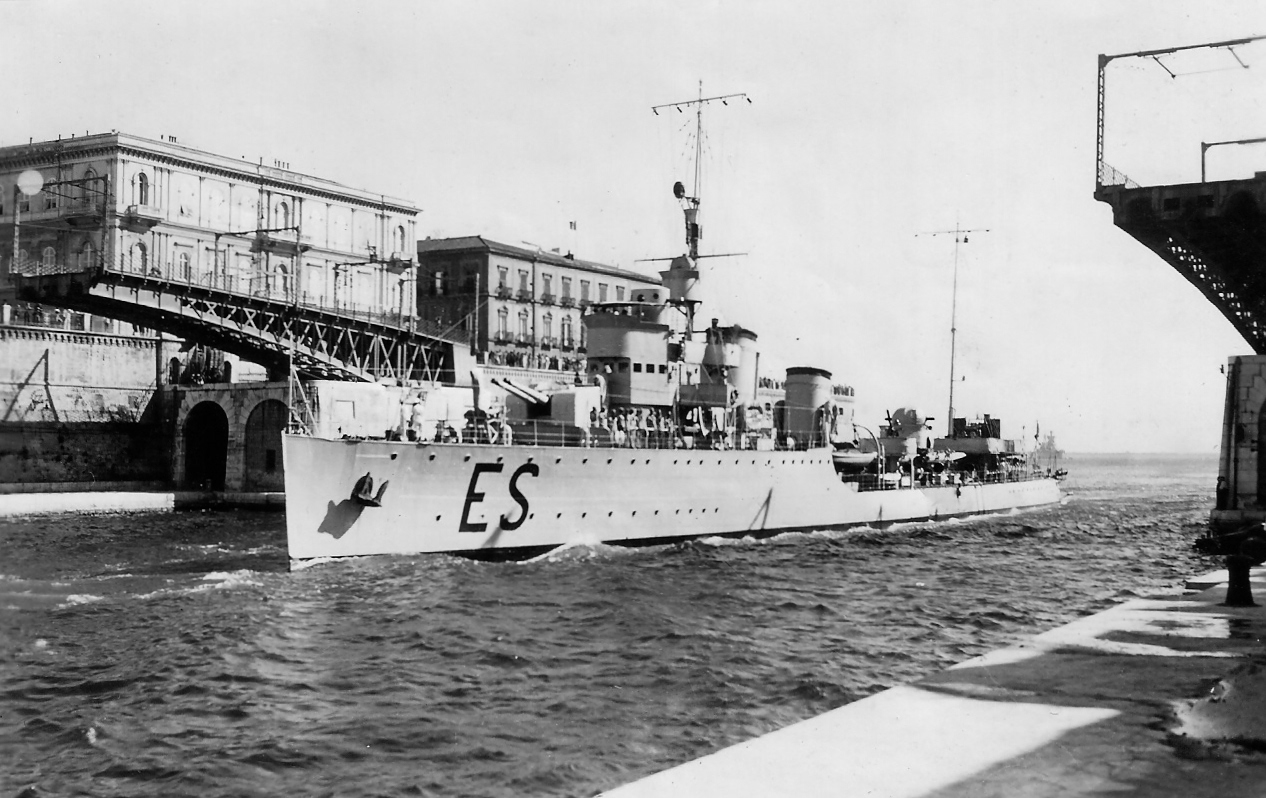 Destroyer Espero passing through a canal in Taranto